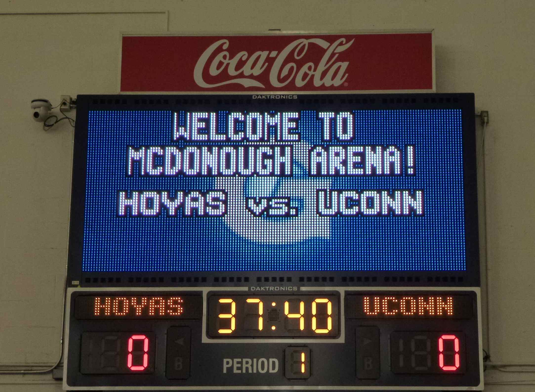 Scoreboard in McDonough Gymnasium, shortly before game between Georgetown and Connecticut women's basketball teams, 9 January 2013